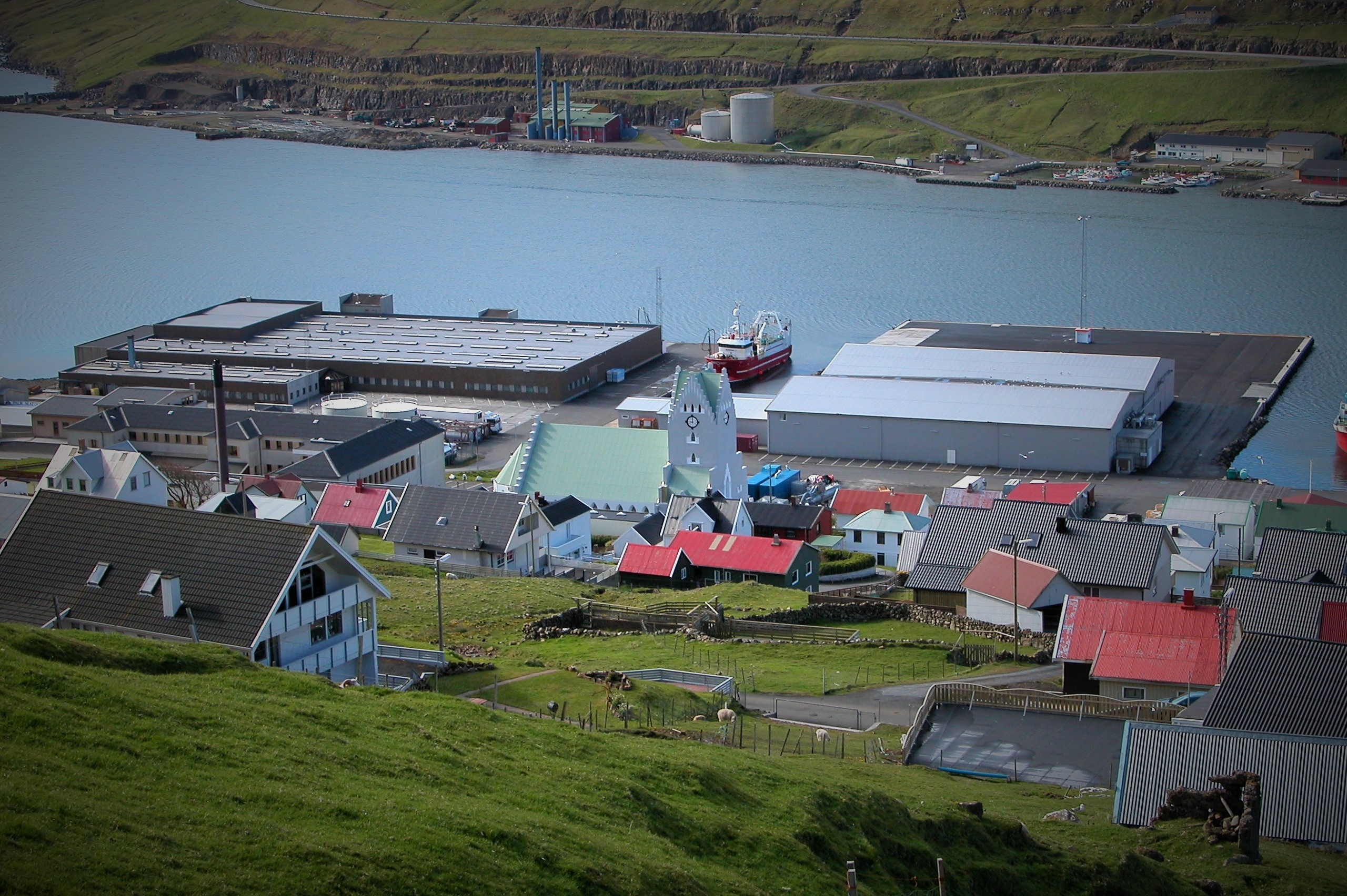 Faroese Fishing Industry, Vágur, Suðuroy, Faroe Islands